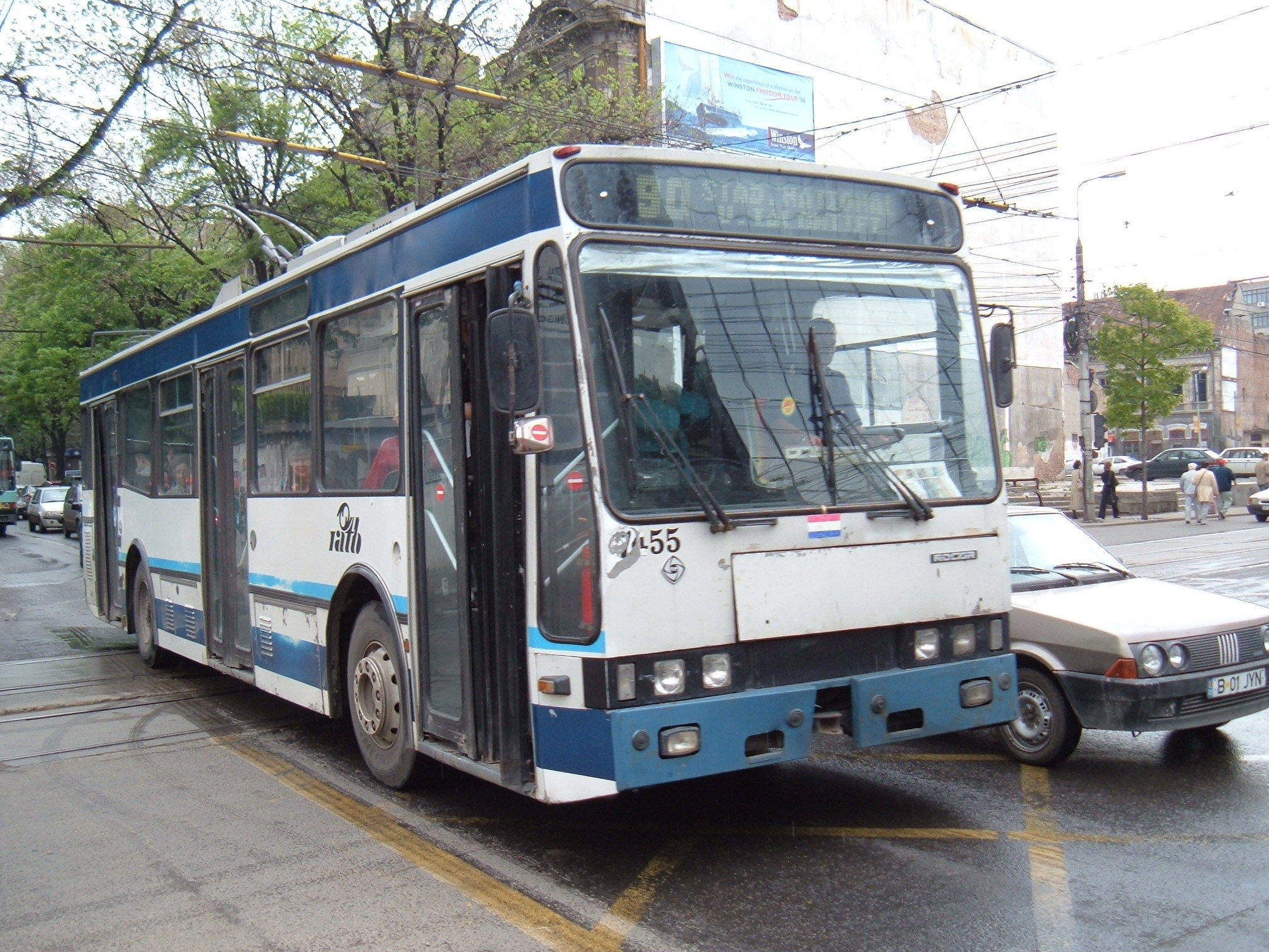 Public trolleybus in Bucharest, Romania (Rocar 512E type). Year built 1998. RATB București company.